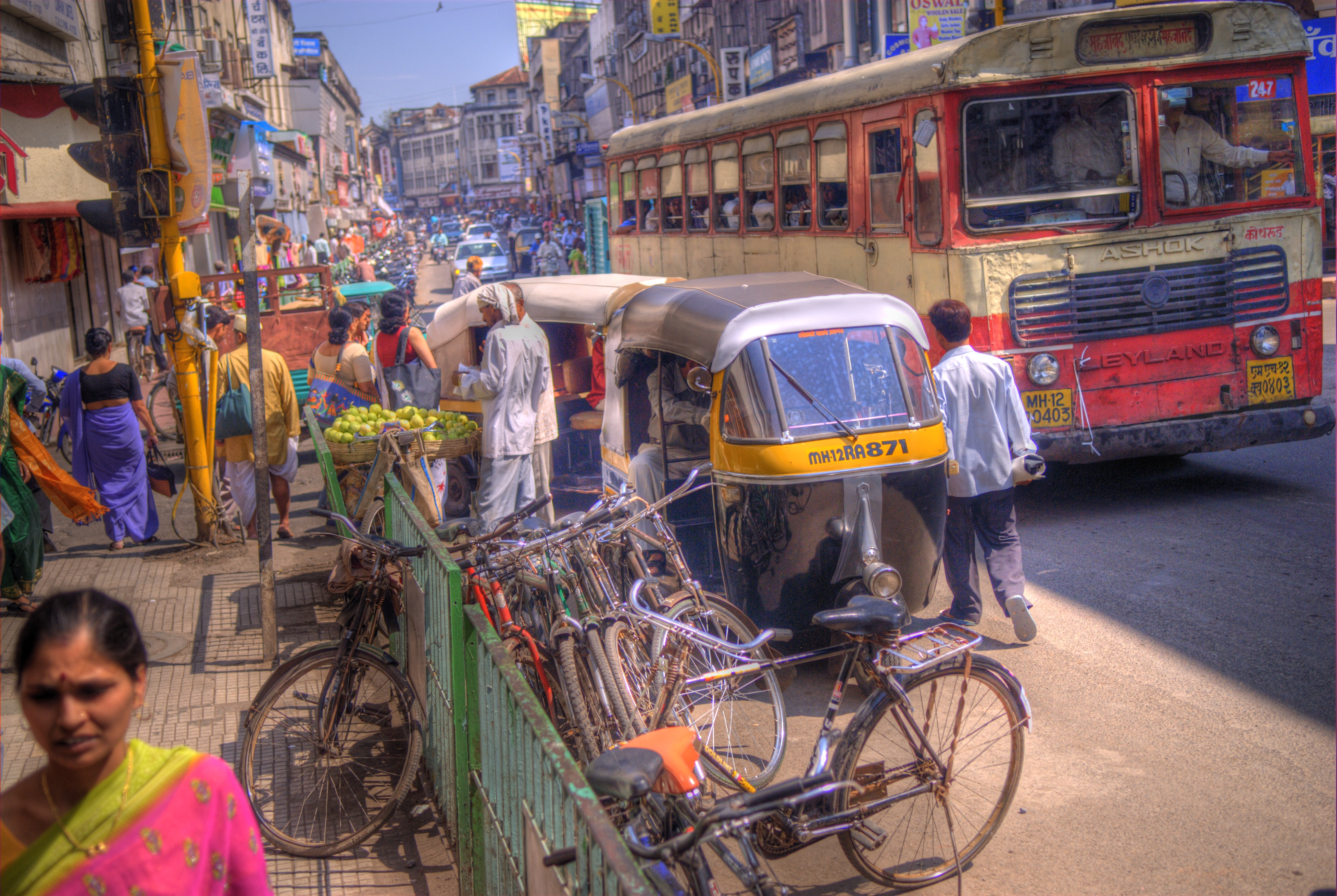 The traffic on the streets of Pune is busy with rickshaws, bicycles, buses and pedestrians. November 2006.